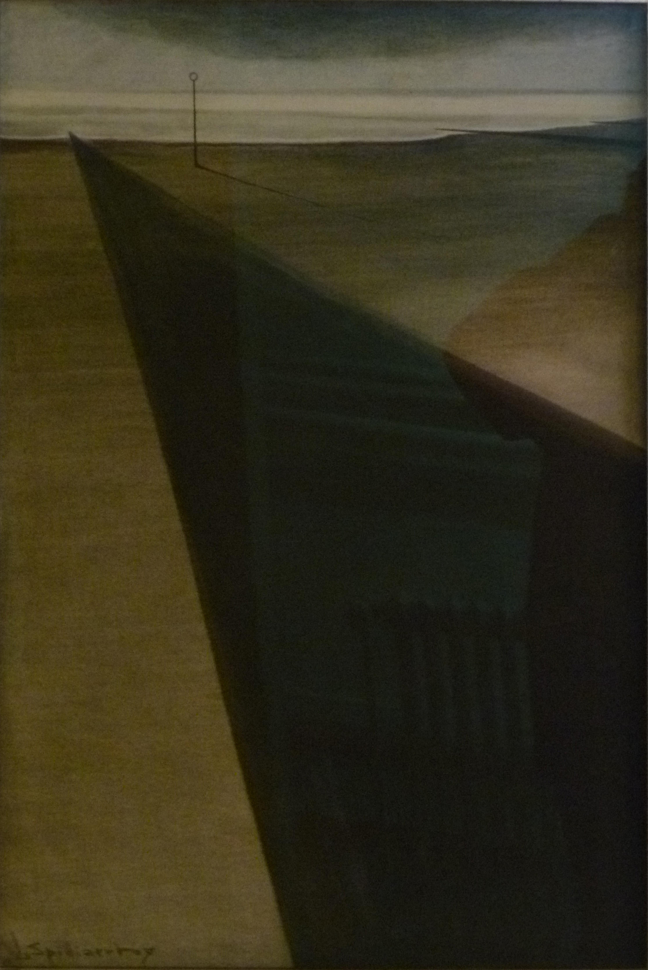 "Golfbreker met paal" (1909); Gewassen Oost-Indische inkt, penseel, houtskool, kleurpotlood op papier door de Belgische kunstenaar Léon Spilliaert; Collectie Belfius, Brussel